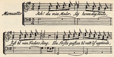 First two lines of Fredman's Epistle No: 23, 'Ach! du min Moder'. Menuetto, 3/4 time, written by Carl Michael Bellman, 1790.